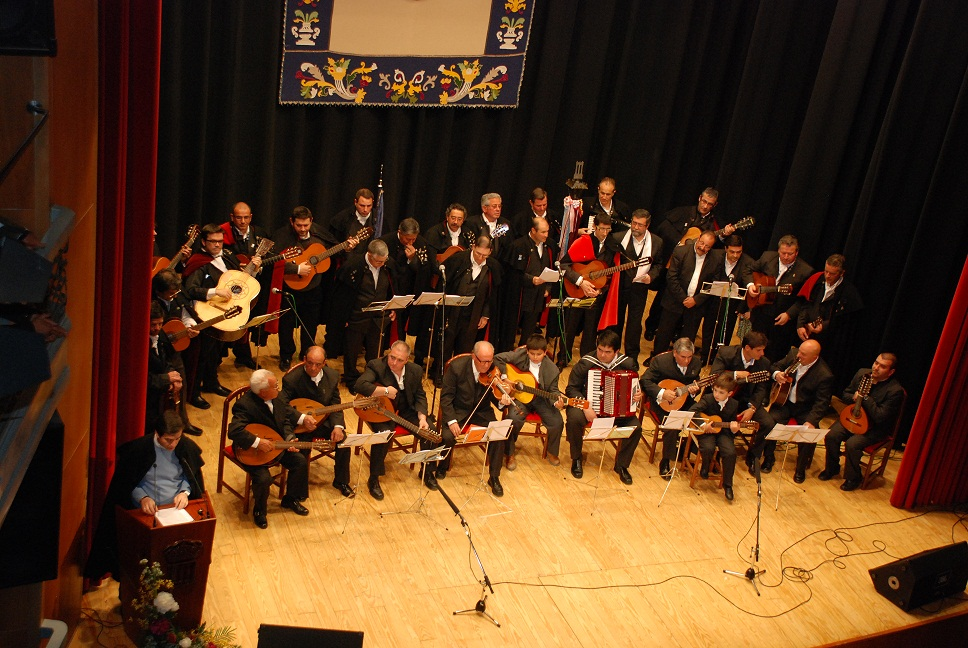 Presentacion de coplas 2009